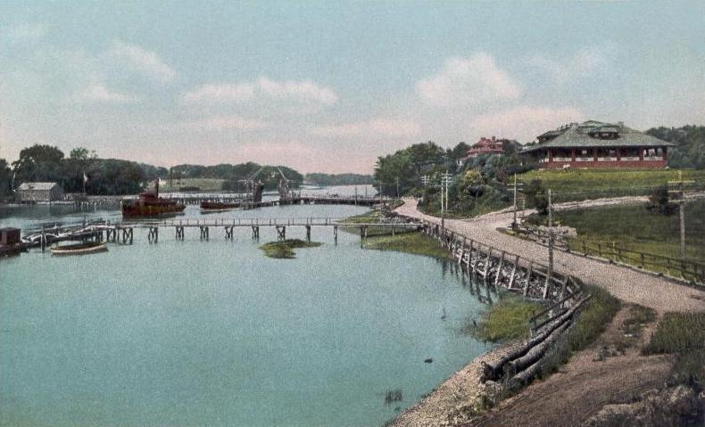 Sewall's Bridge & Country Club, York, ME; from a 1908 postcard. The wooden trestle bridge was built in 1761, and named for Major Samuel Sewall, Jr., the civil engineer who designed and constructed it.